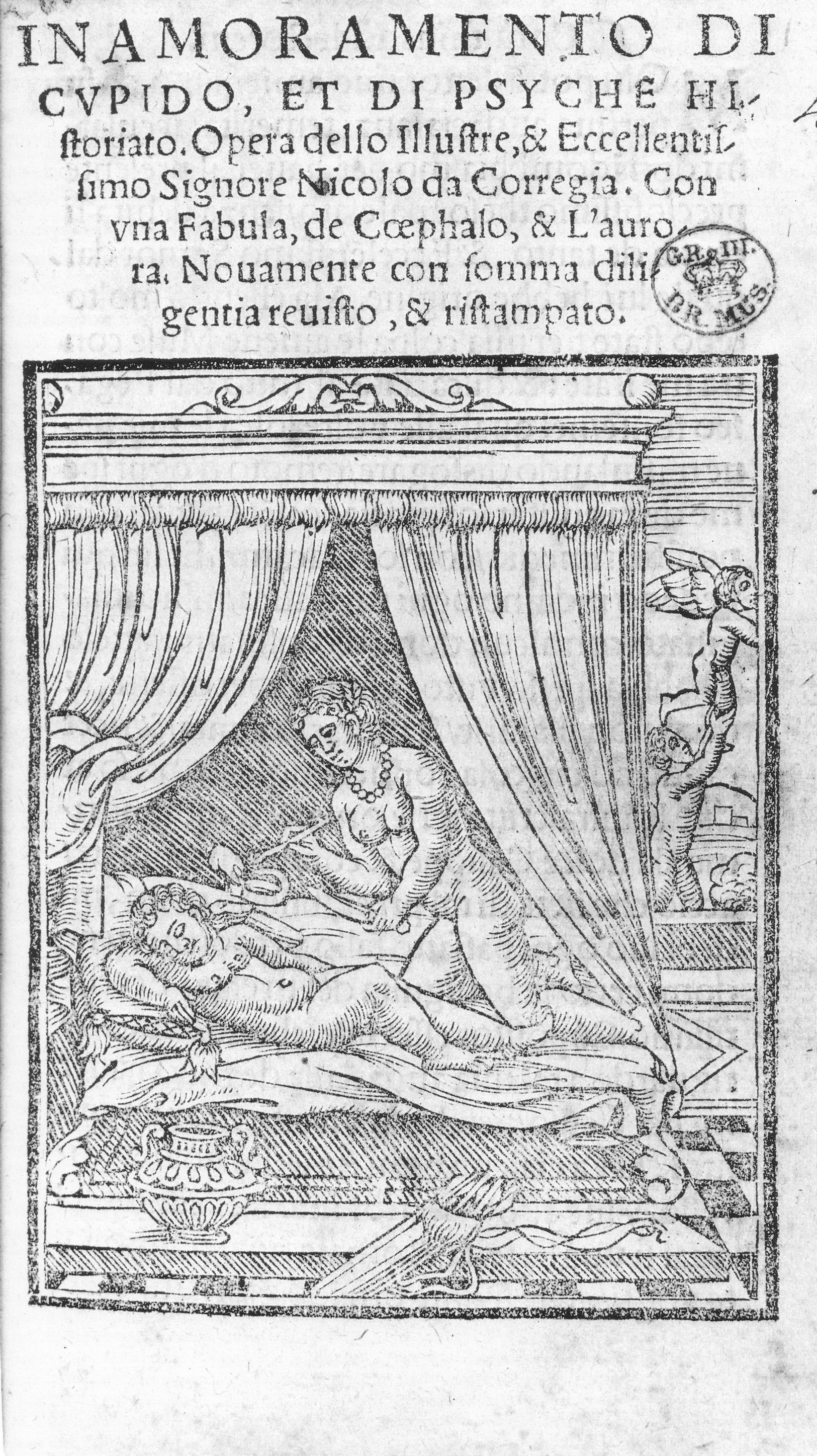 Psyche lights Amor, frontispiece of Niccolò da Correggio’s Innamoramento di Cupido e Psiche in the British Library in London.